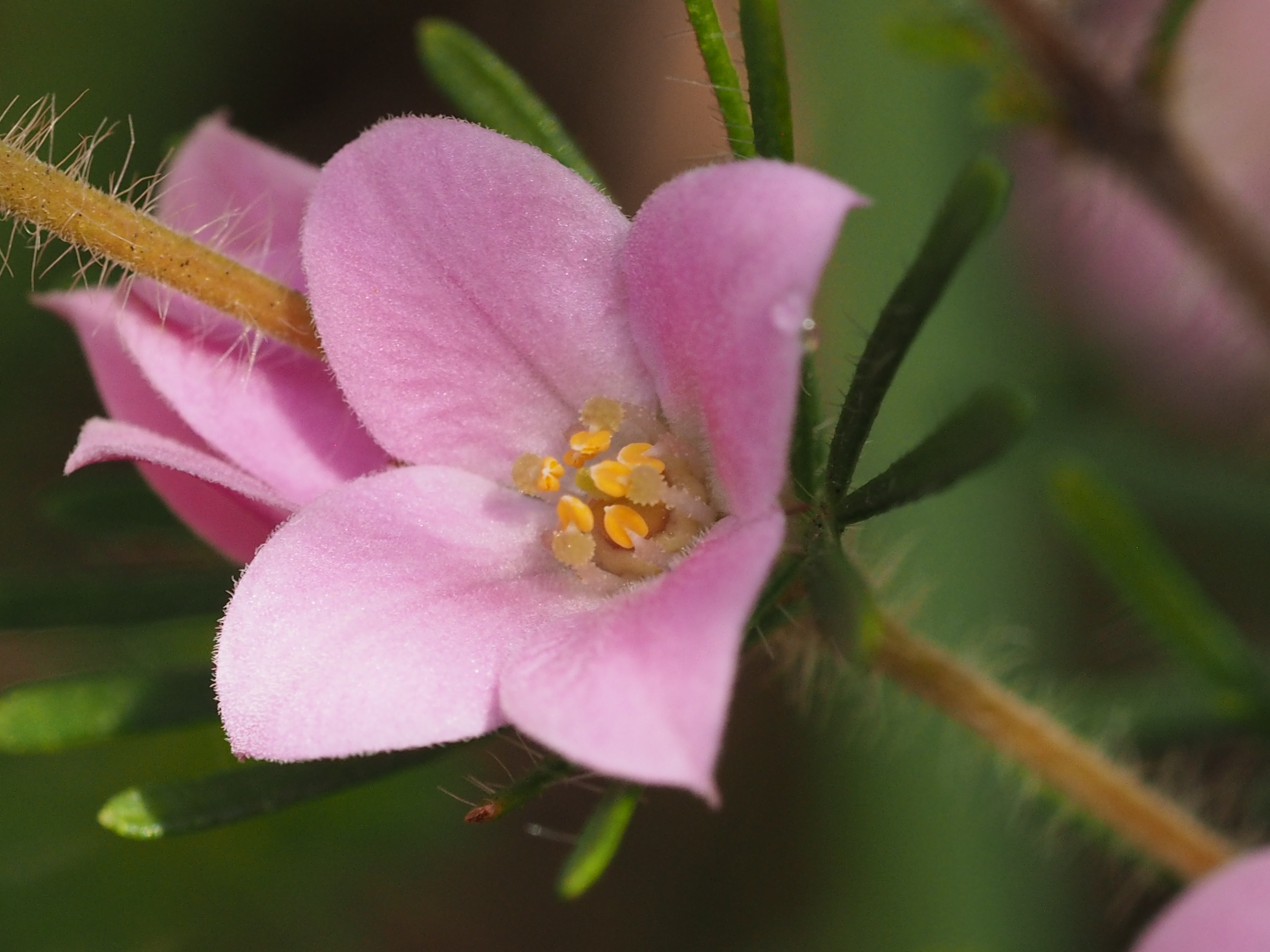 Close up of the flower of Boronia stricta